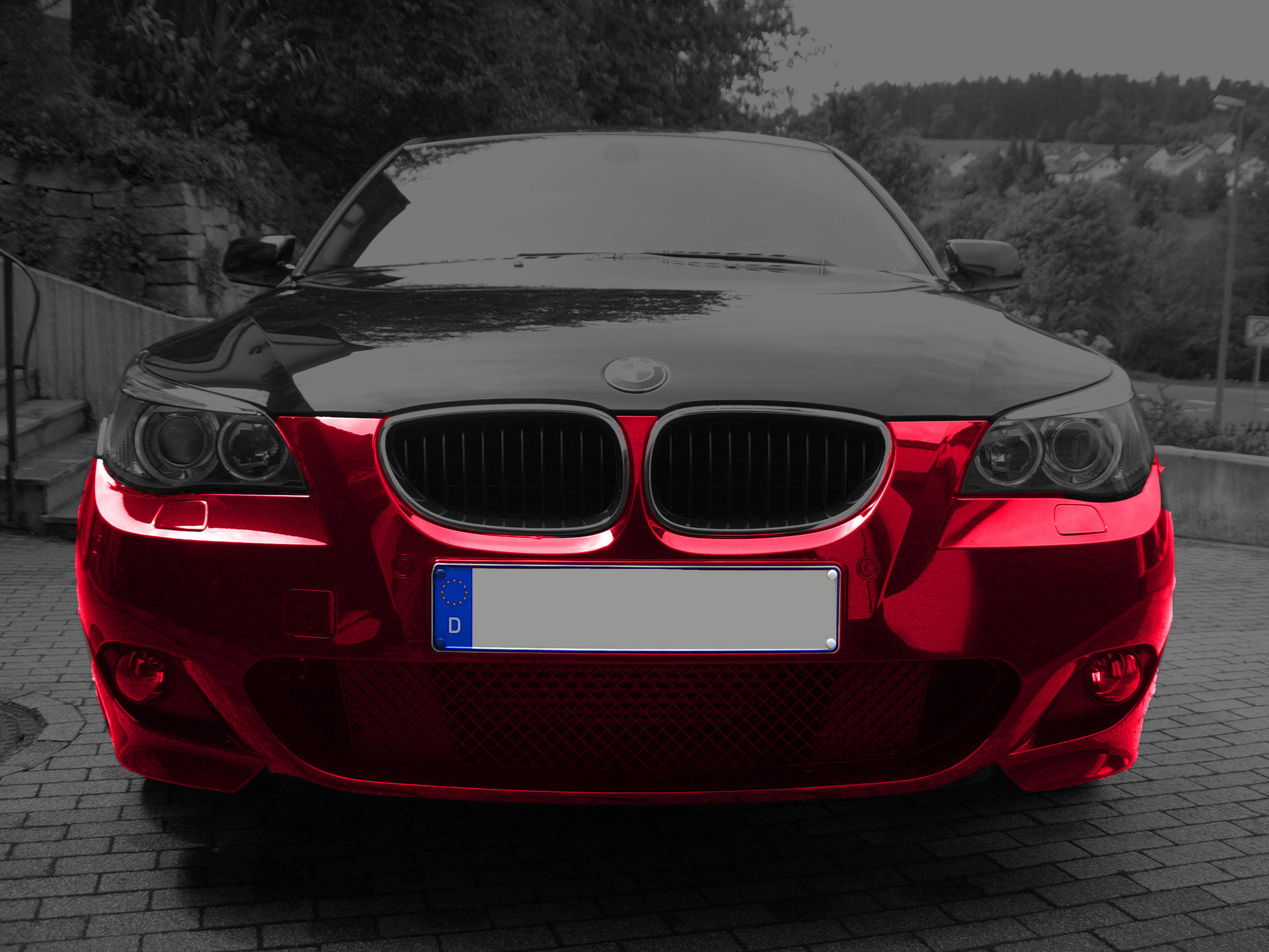 Front bumper of a BMW E60